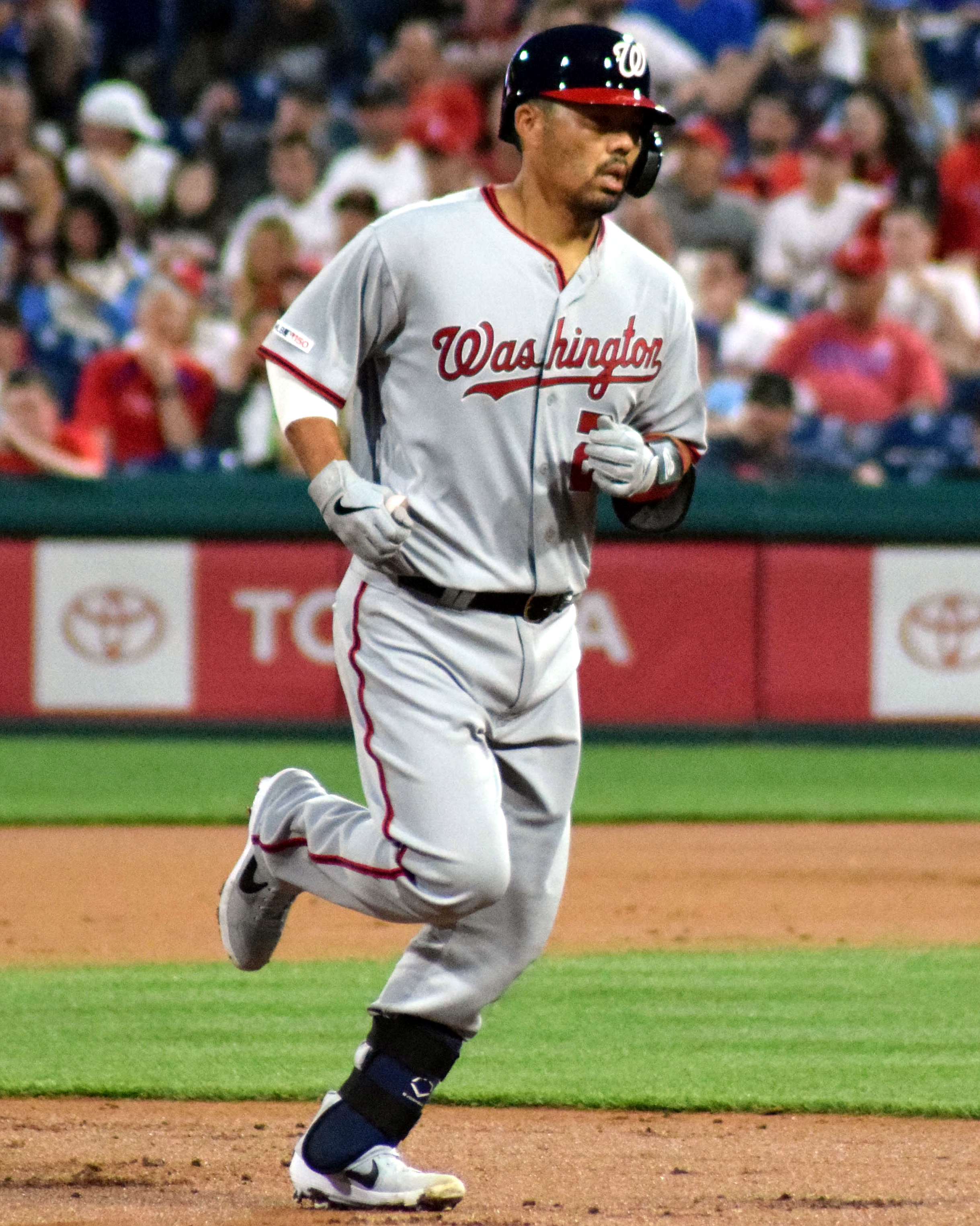 Kurt Suzuki of the Washington Nationals during a 2019 game at Citizens Bank Park in Philadelphia